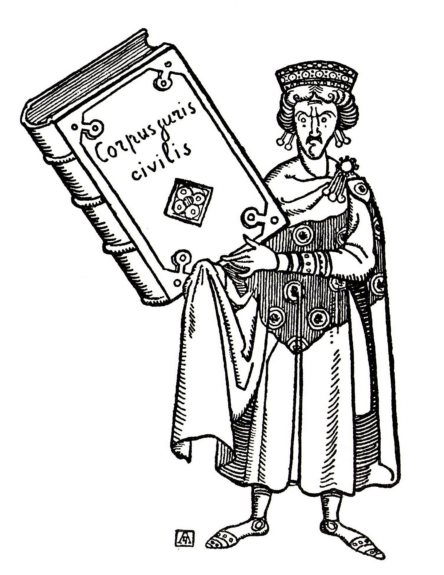 The illustration for the humorous book The General History Edited by Satyricon. Justinian holds a volume of the Corpus Juris Civilis, a collection of fundamental works in jurisprudence issued by order of Justinian the Great.